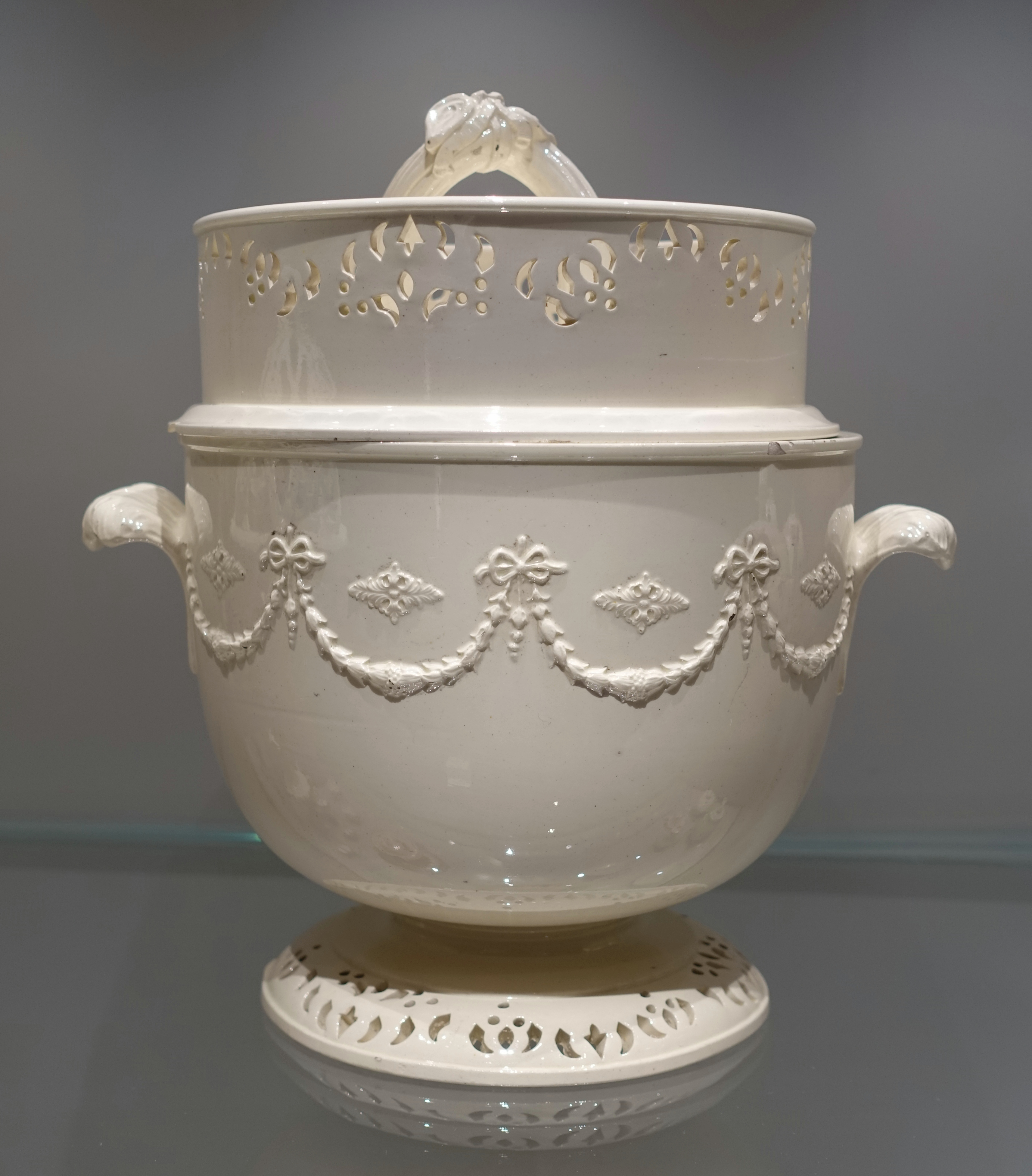 Exhibit in the Wedgwood Museum - Barlaston, Stoke-on-Trent, England.